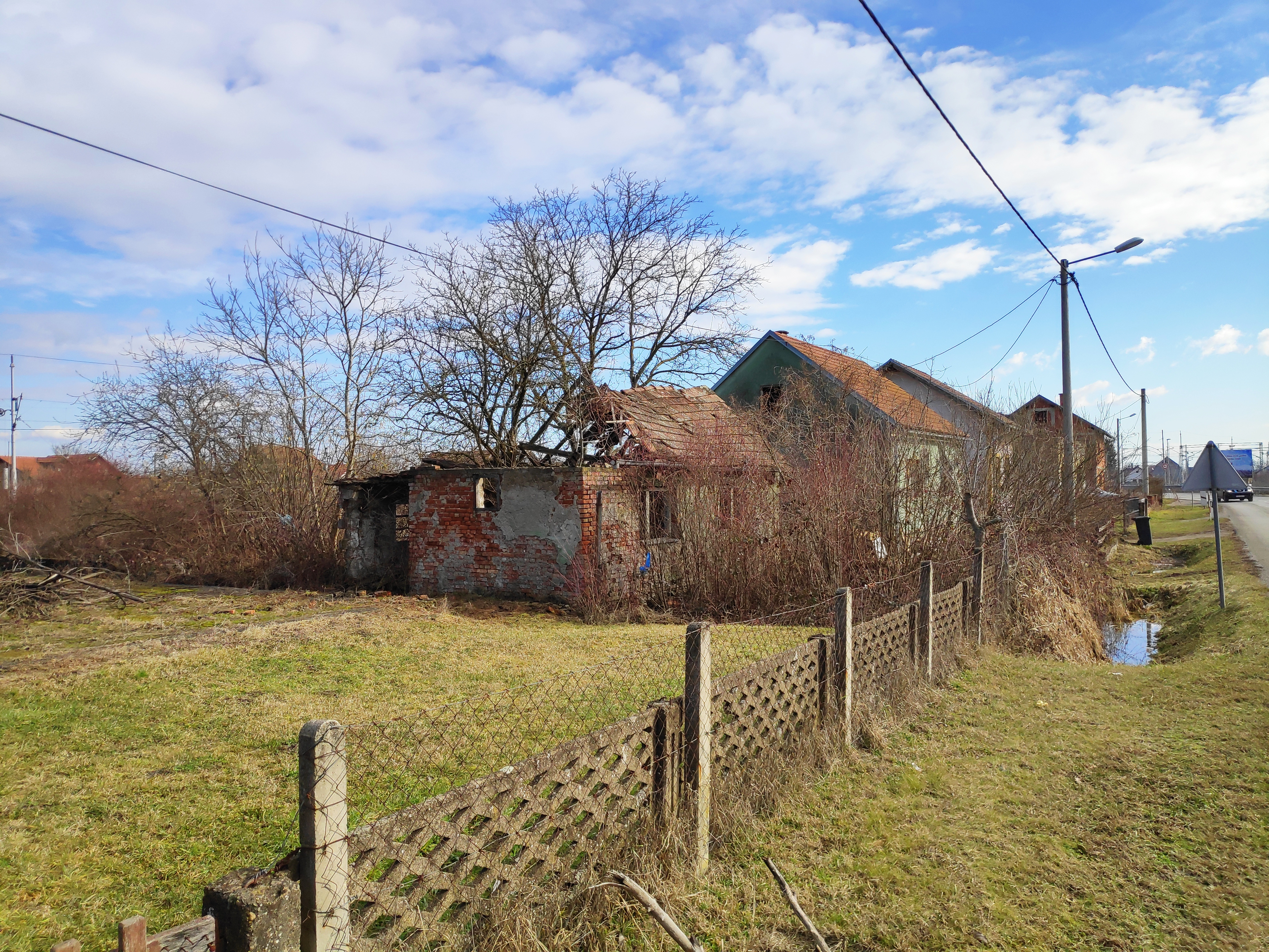 Drljača (Sunja), with destroyed Serbian house from war in Croatia